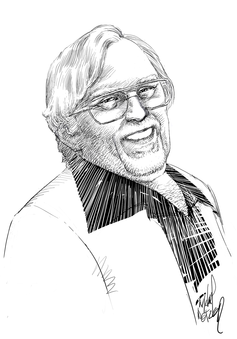 A portrait Illustration of comics artist and editor Dick Giordano, by Michael Netzer for his Portraits of the Creators Sketchbook.